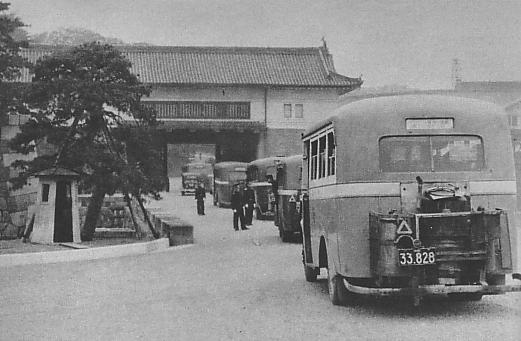 Charcoal-fired bus in Japan